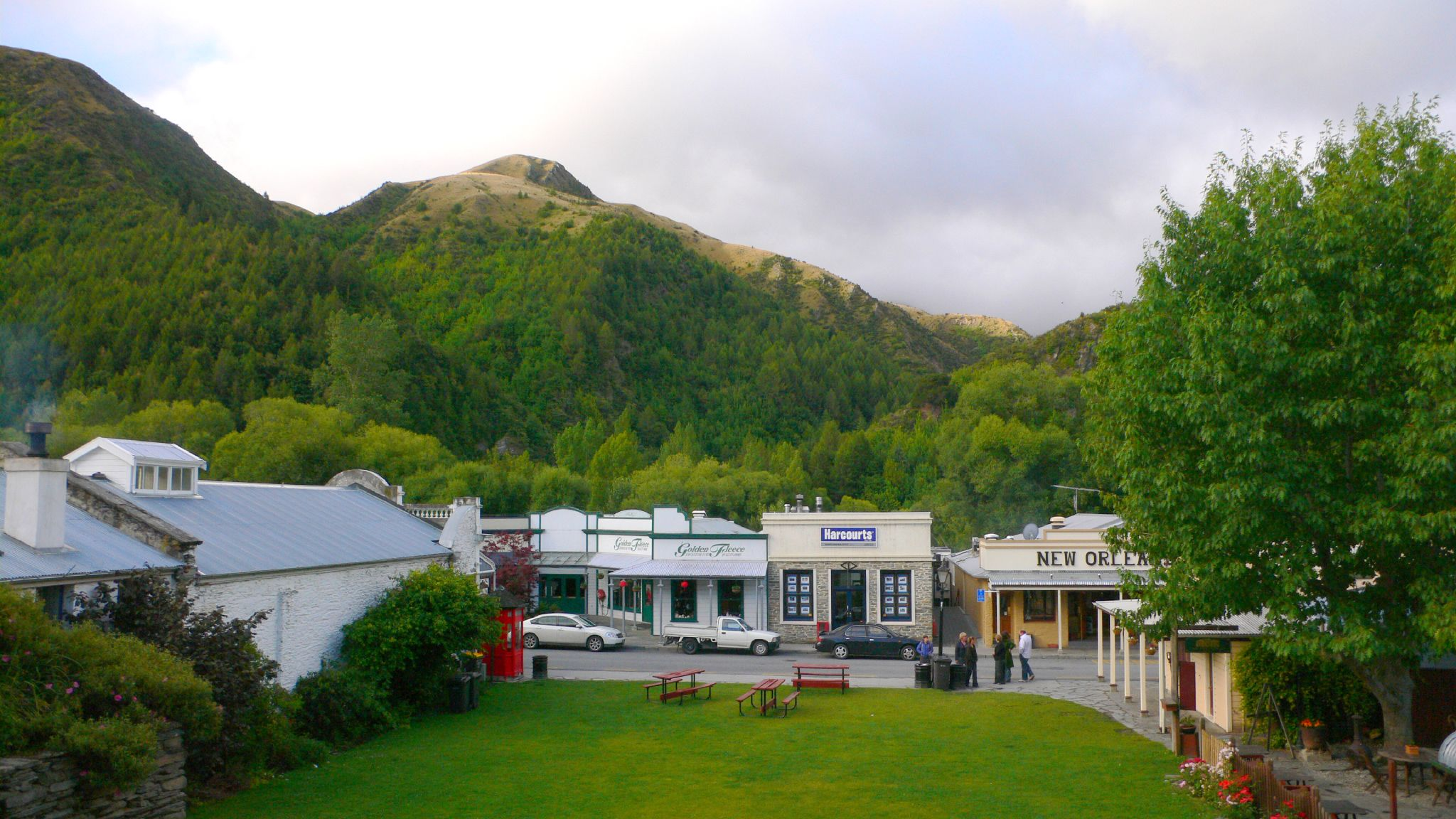 View onto Arrowtown